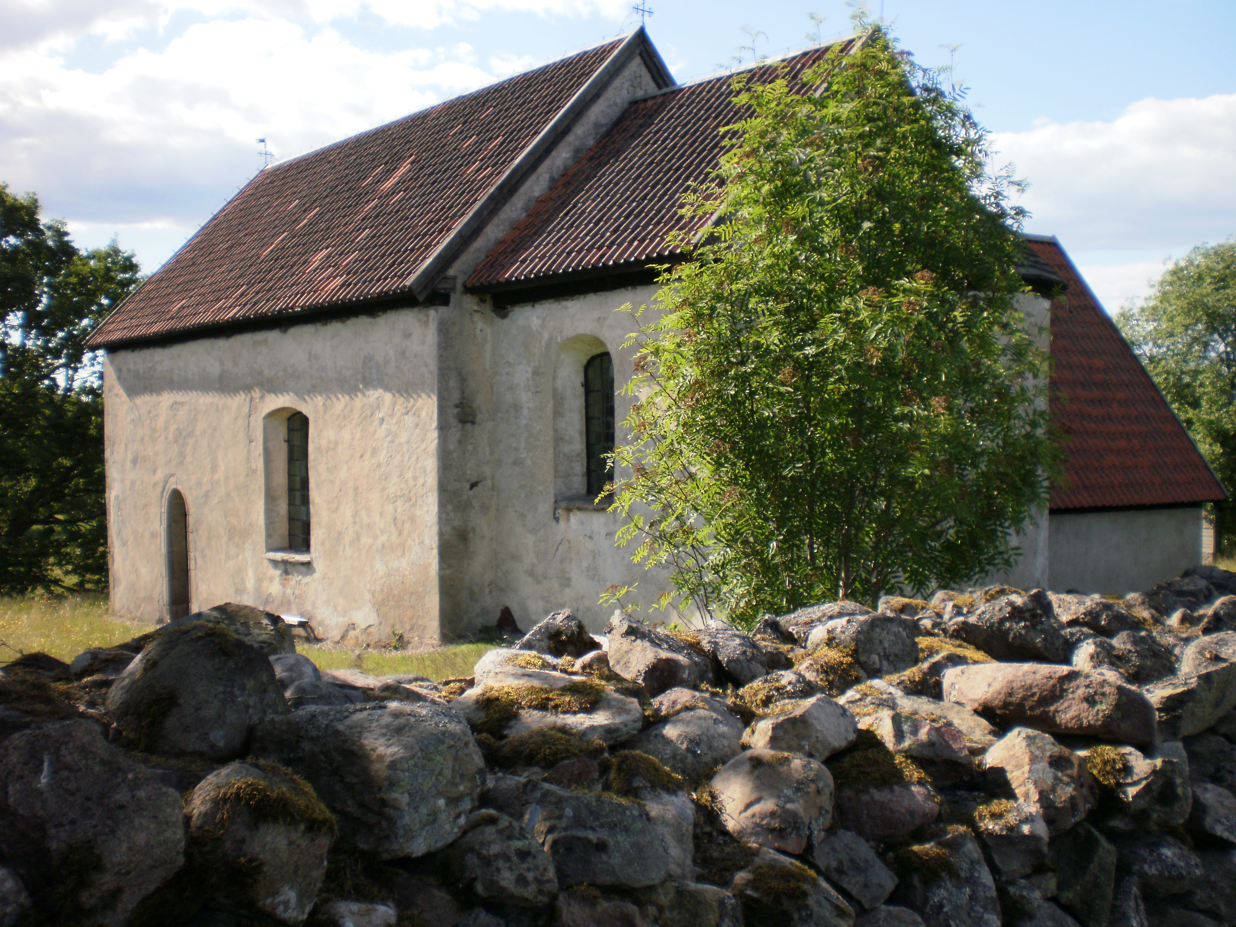 Hemmesjö old church.The romanesque church was built of stone 1175. The church building is considered one of the most unchanged medieval churches in Växjö and one of the oldest in the country.